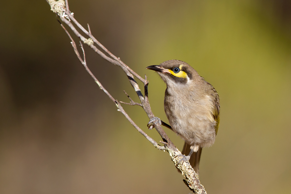 Another Honeyeater at the bird bath this morning. Strangways Vic.